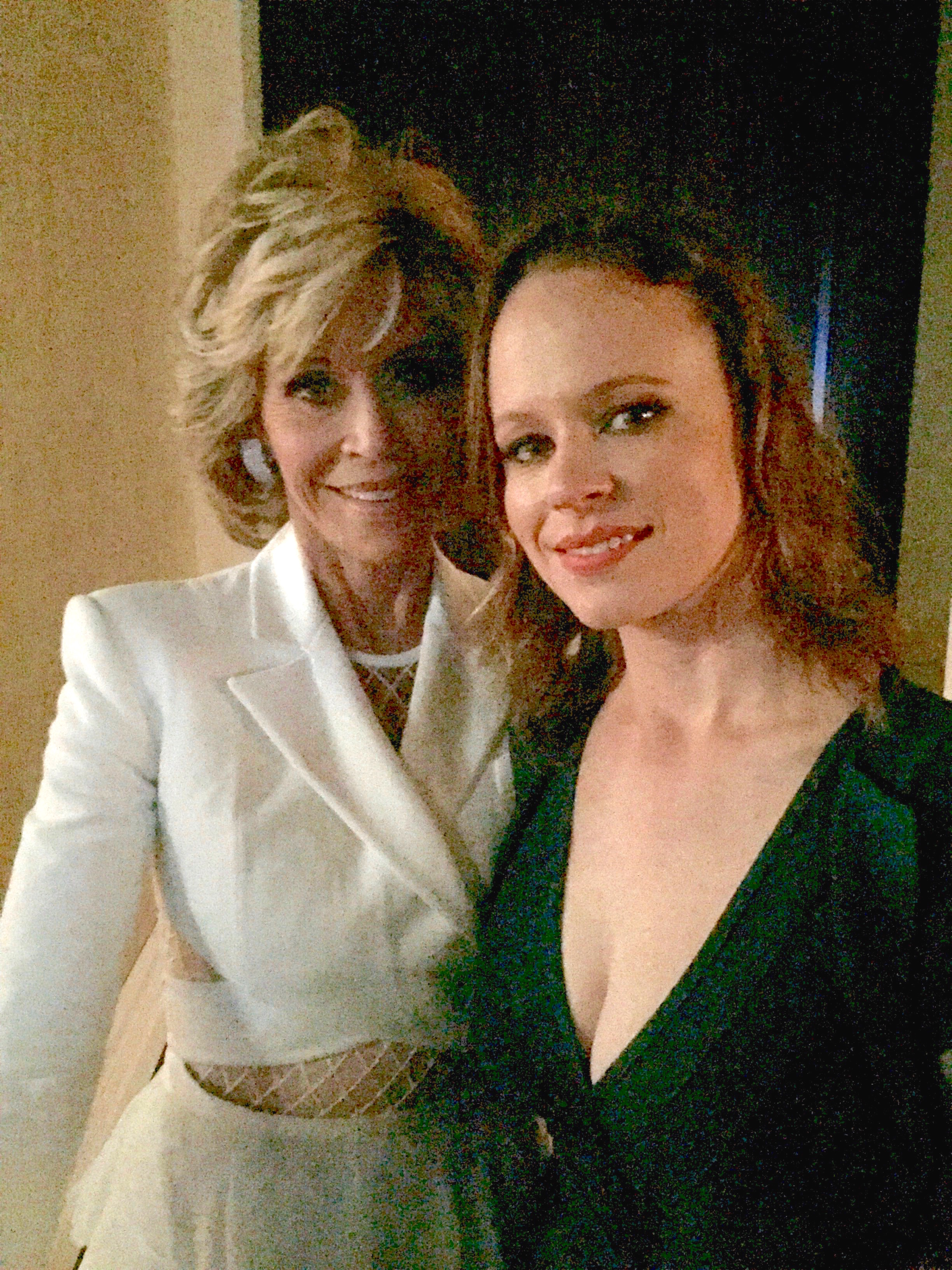 Thora Birch and Jane Fonda at the Hollywood Film Awards